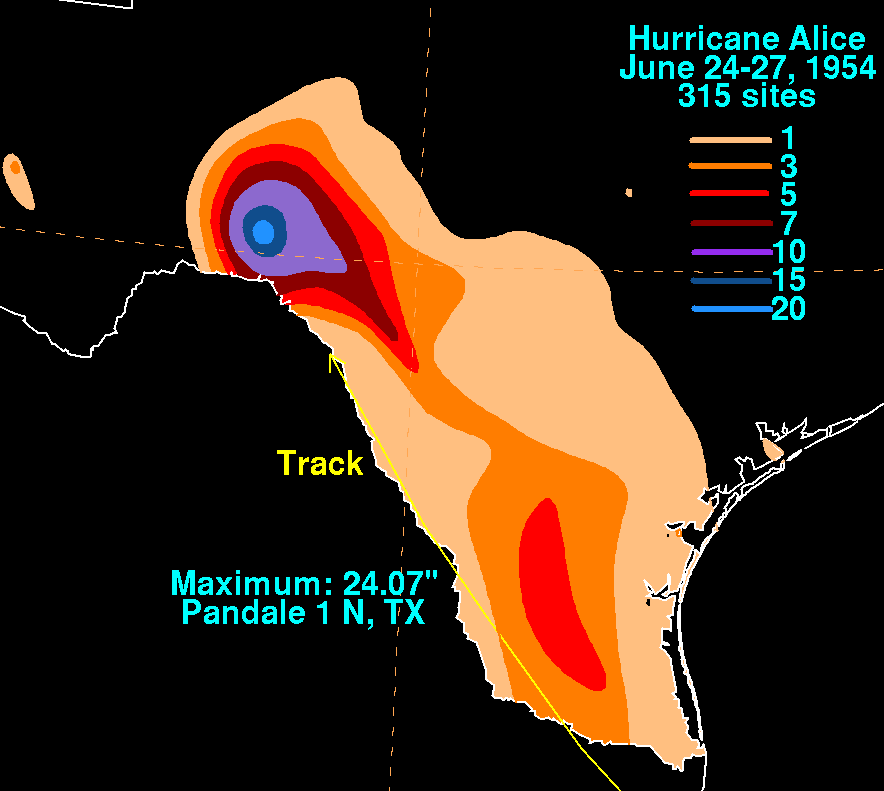 Storm total rainfall map of Hurricane Alice during June 1954.